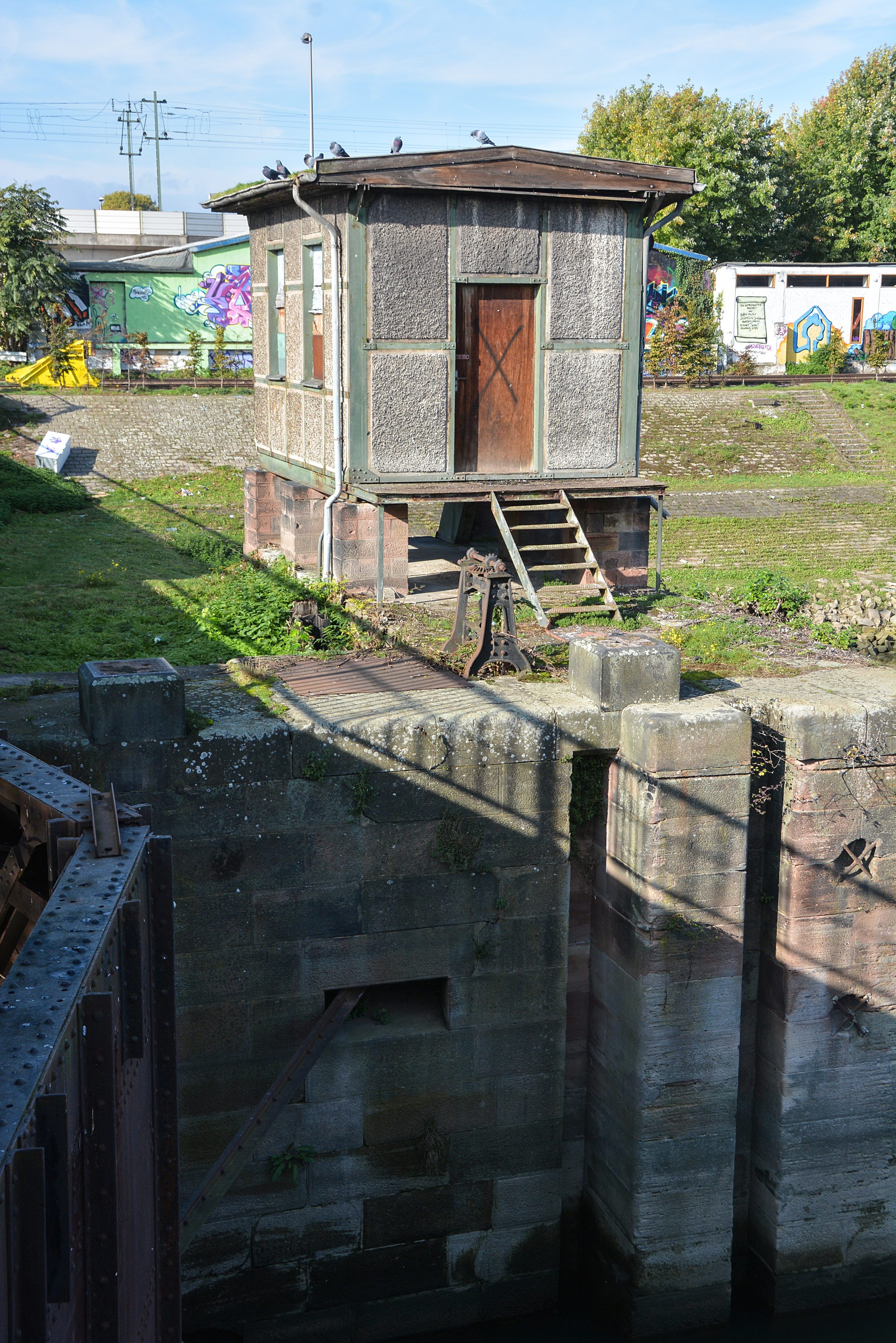 Teufelsbrücke ("Devil's Bridge"), Mannheim - machine house and hand winch for the the lock gate